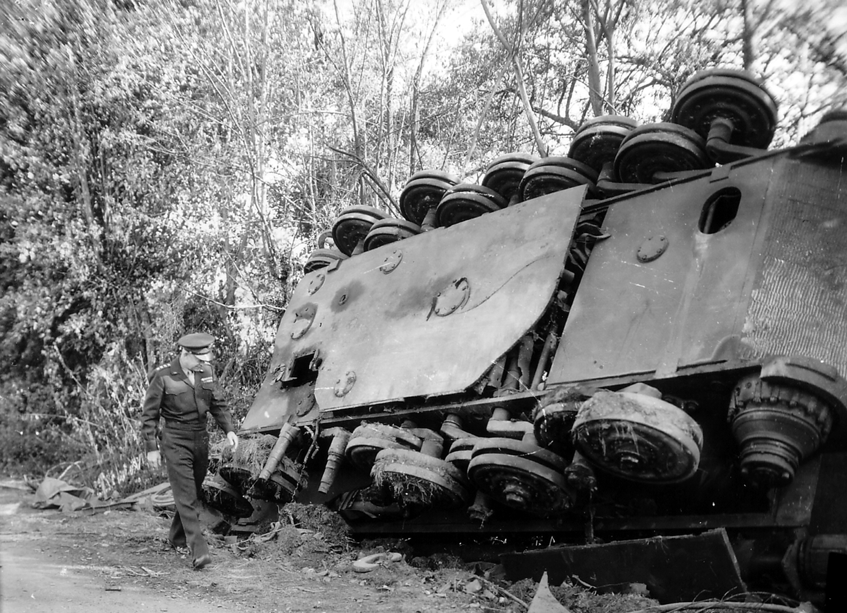 “IKE” INSPECTS THE WORK OF HIS MEN FRANCE – Gen. Dwight D. Eisenhower, supreme commander of the Allied expeditionary forces, inspects an overturned German tank left by a roadside in France by the retreating enemy.